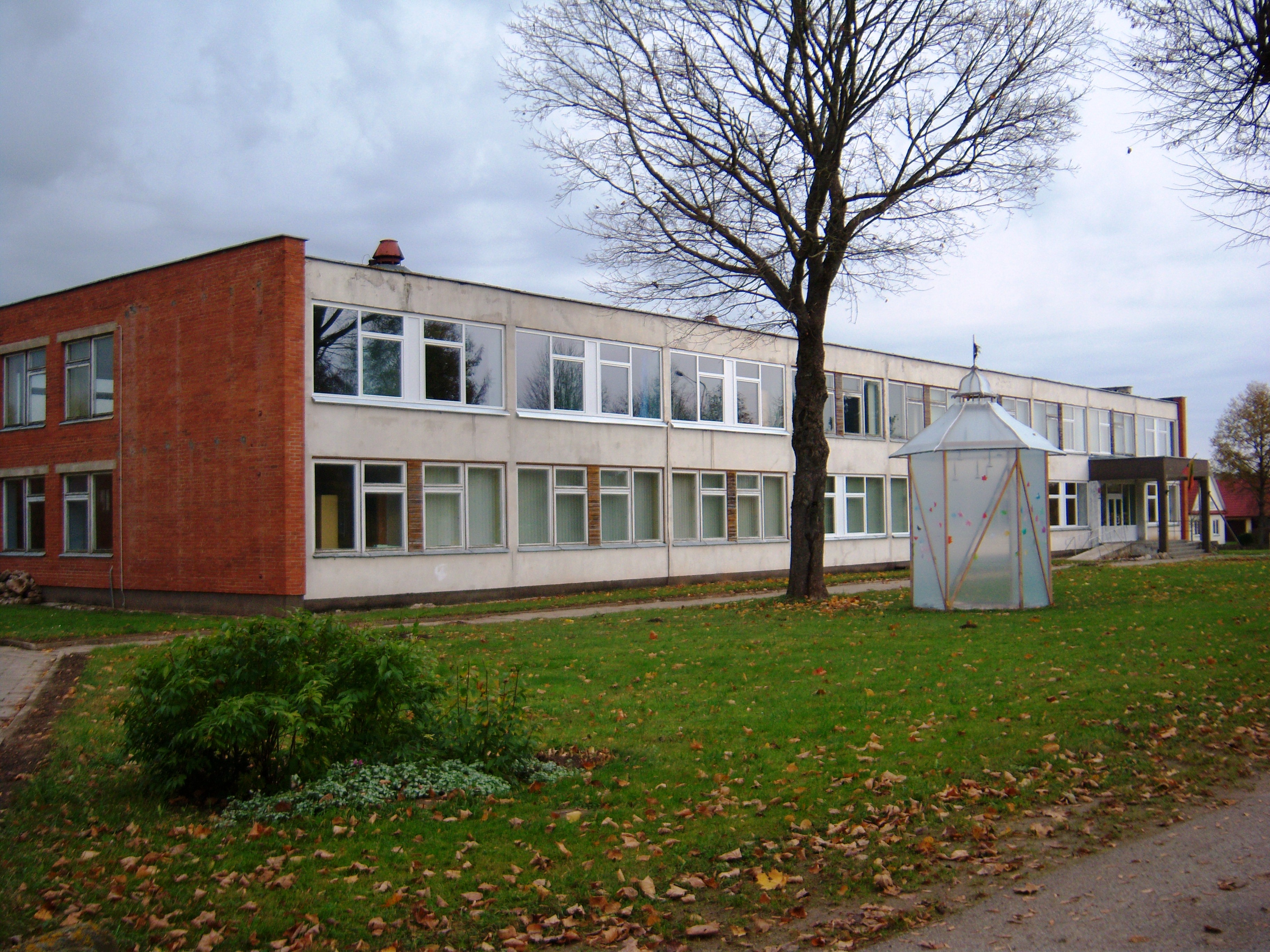 Viešintos Main School, Lithuania